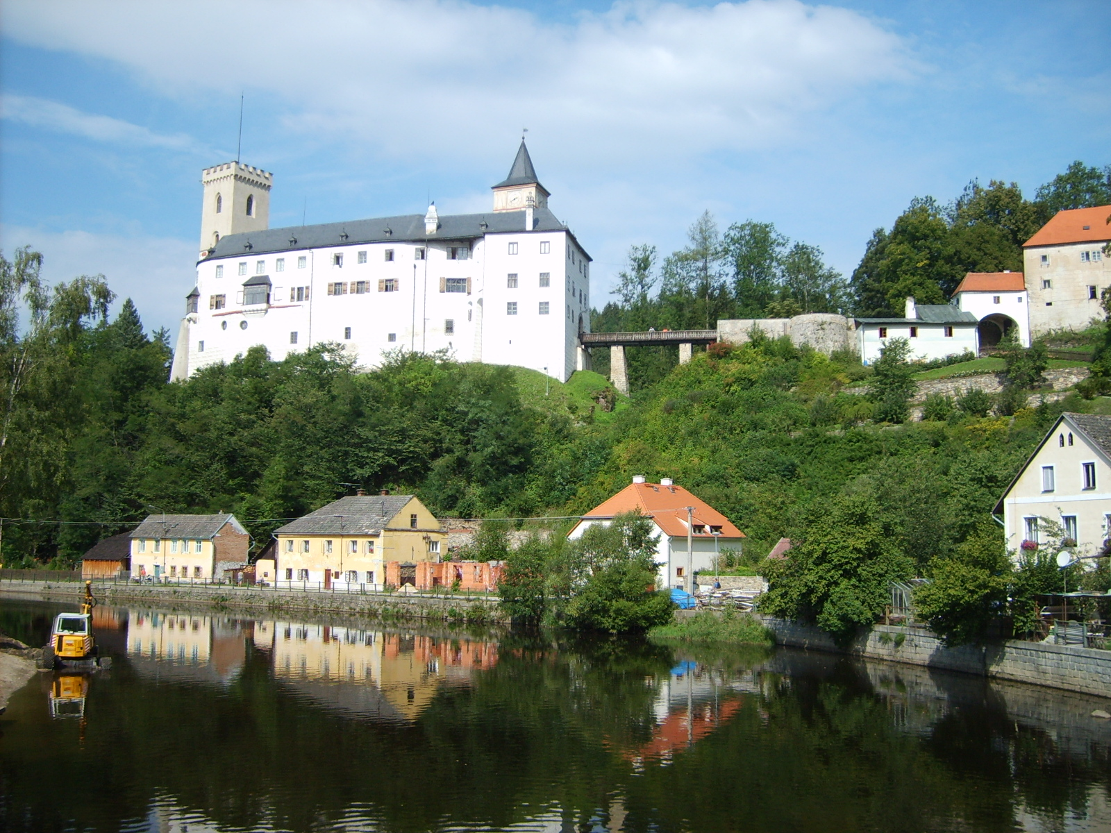 Rožmberk Castle and the Vltava River in Rožmberk nad Vltavou